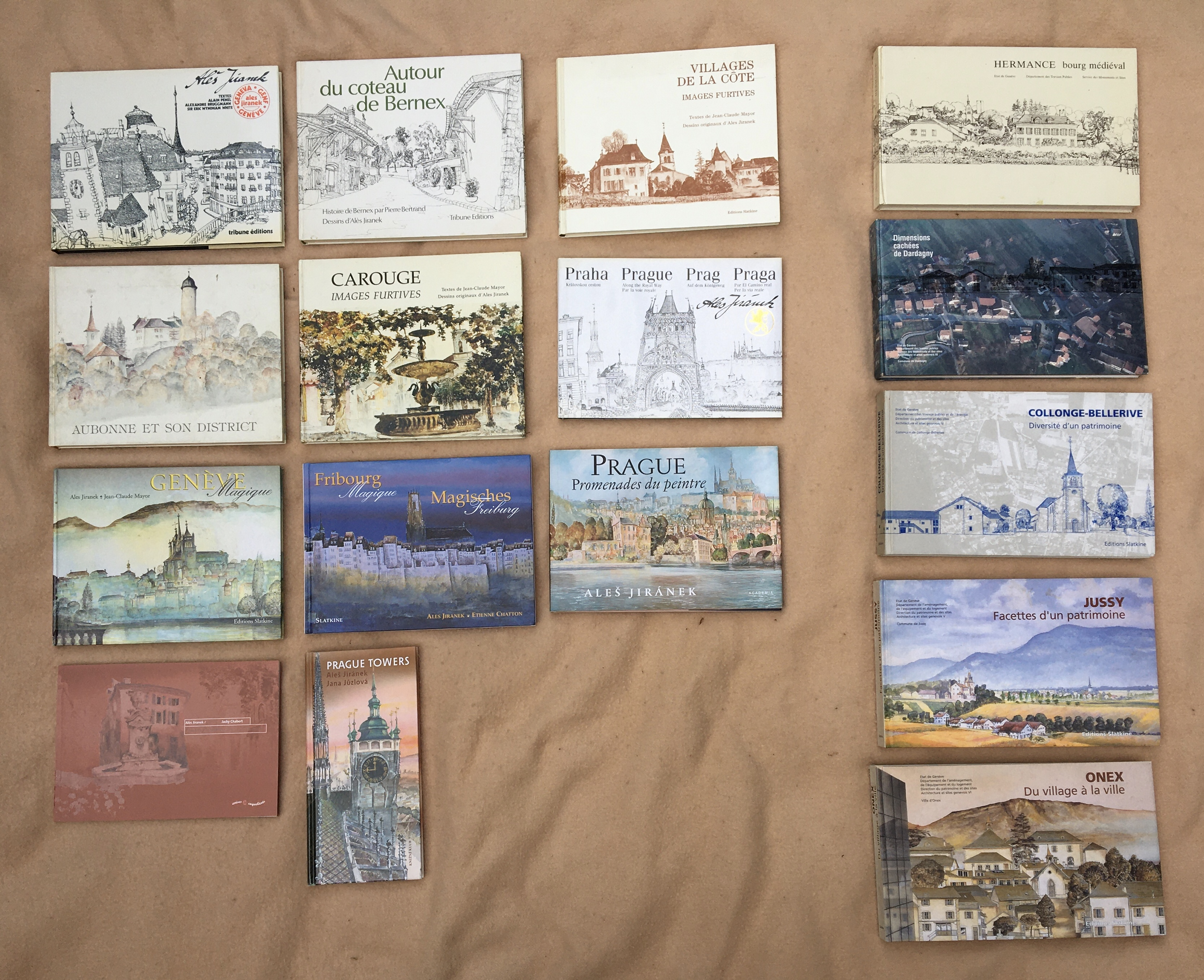 Illustrated books by Ales Jiranek: la promenade du peintre on the left, le regard d'architecte on the right